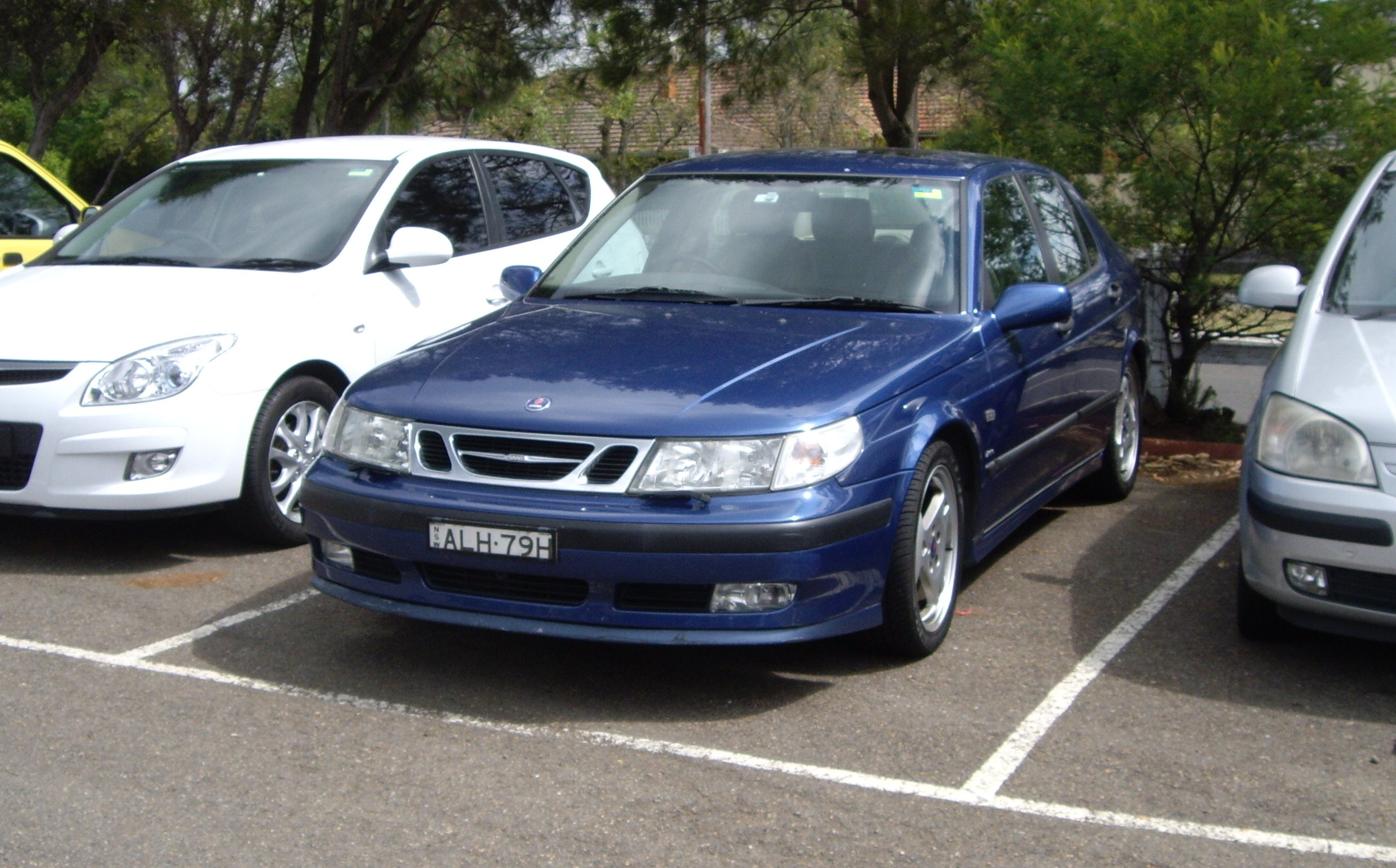 A product of the GM ownership era of Saab, I think these were based off a Vectra platform? GM ownership did seem to kill off some of the 'Saabness' that made older Saabs so quirky and interesting. These Saabs (actually quite a few Saabs) have a reputation for unreliability here, you often see them for sale with a dead gearbox, headgasket or other problem selling really cheap. The funny thing is, though, I see just as many VW, Audi, BMW and Mercs of the same era with similar issues selling just as cheap but apparently without affecting their reputations.